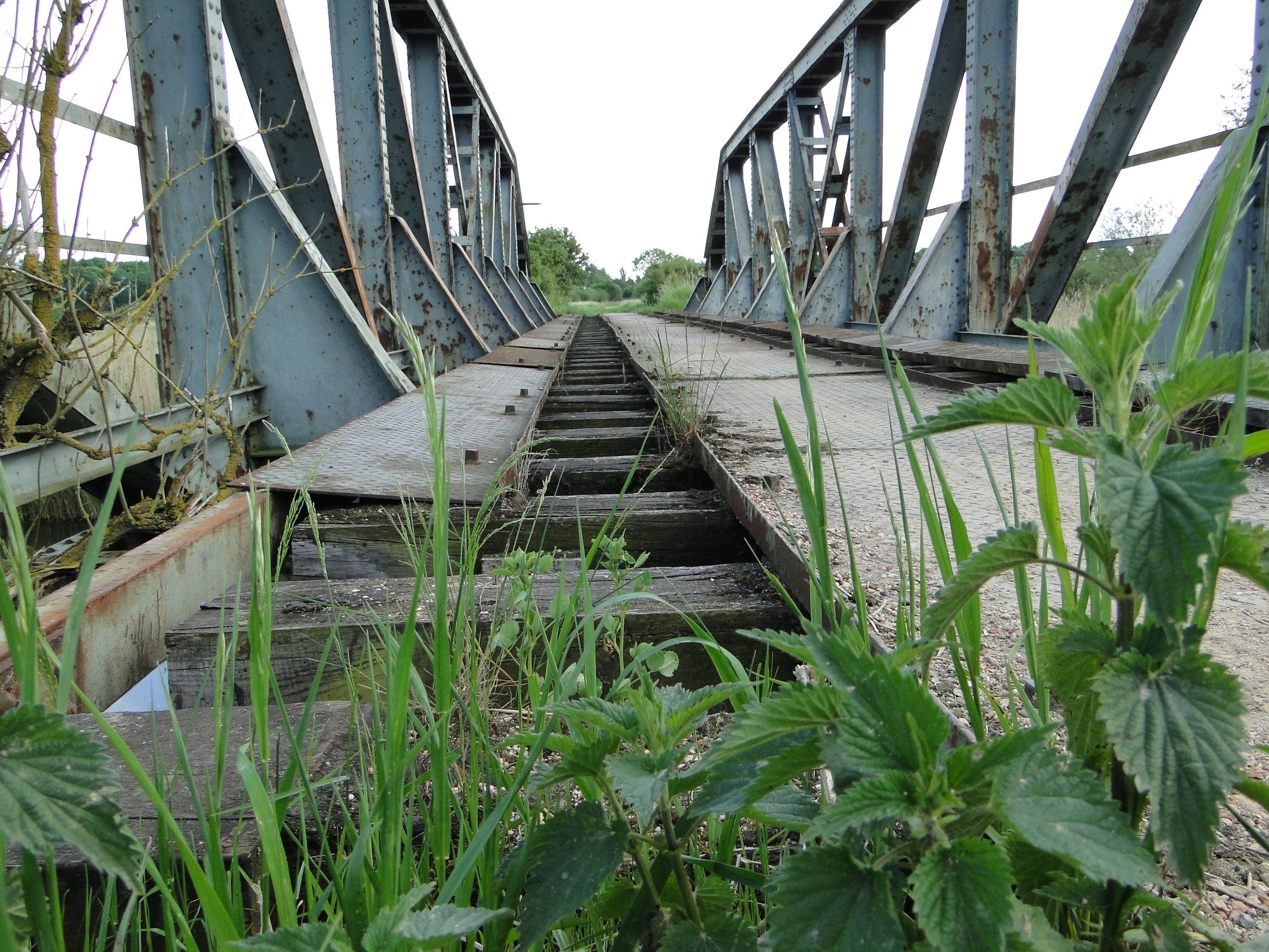 Railway bridge over the Trebel river in Tribsees, district Vorpommern-Rügen, Mecklenburg-Vorpommern, Germany